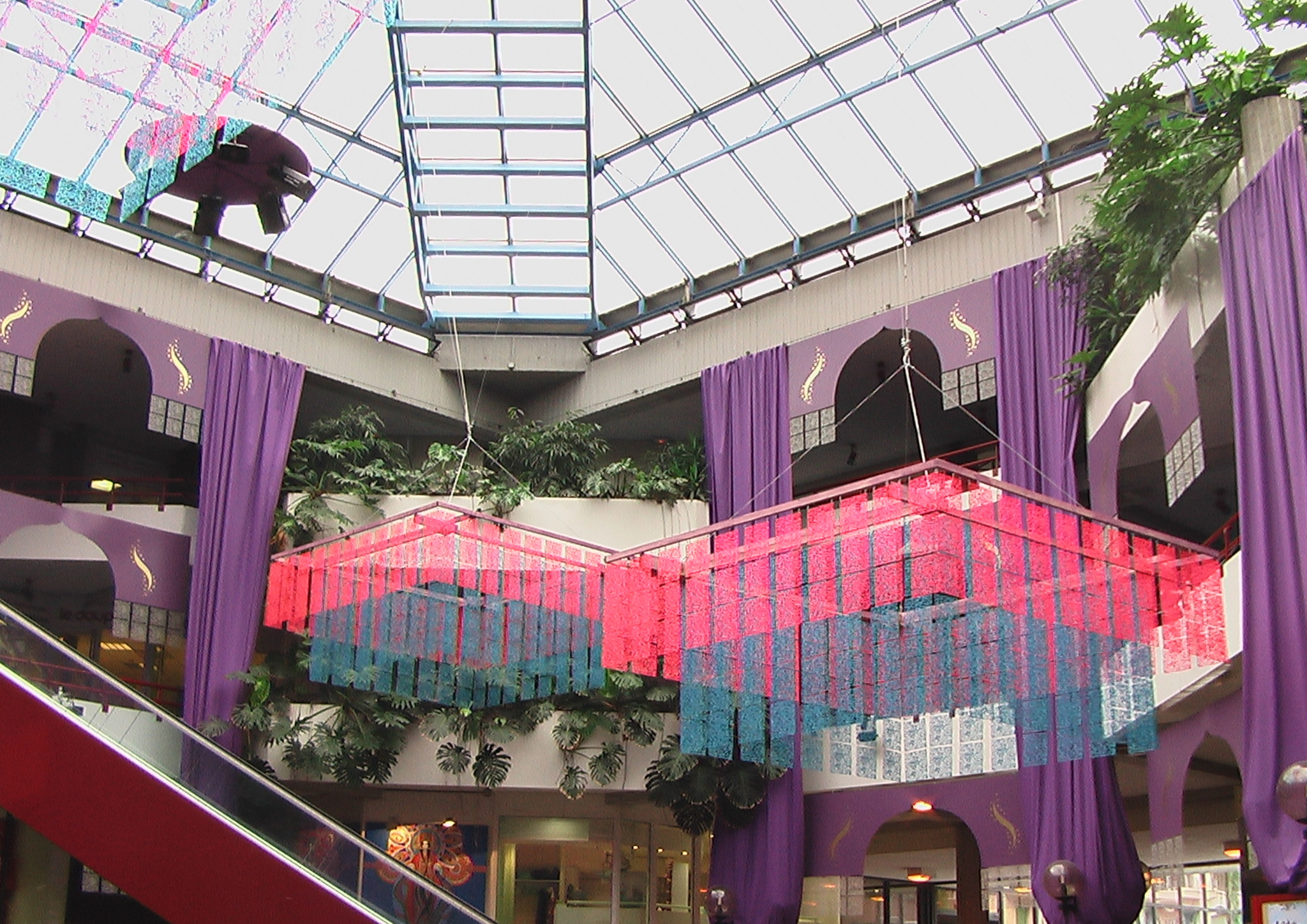 At the Annecy International Animated Film Festival.